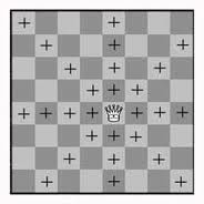 وزیر حرکتی